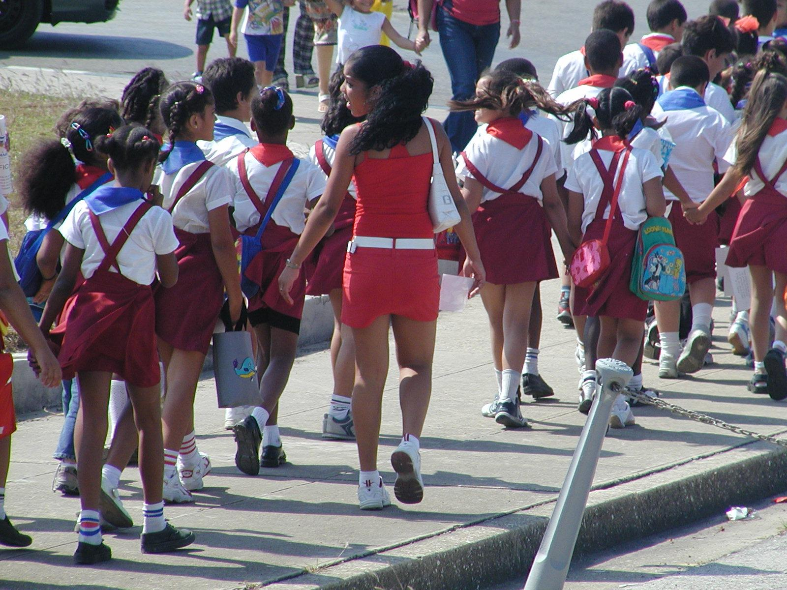 School children in Cuba